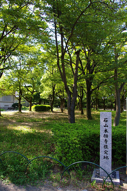 Ishiyama Honganji Temple monument, Osaka Castle Park,Osaka City, Japan